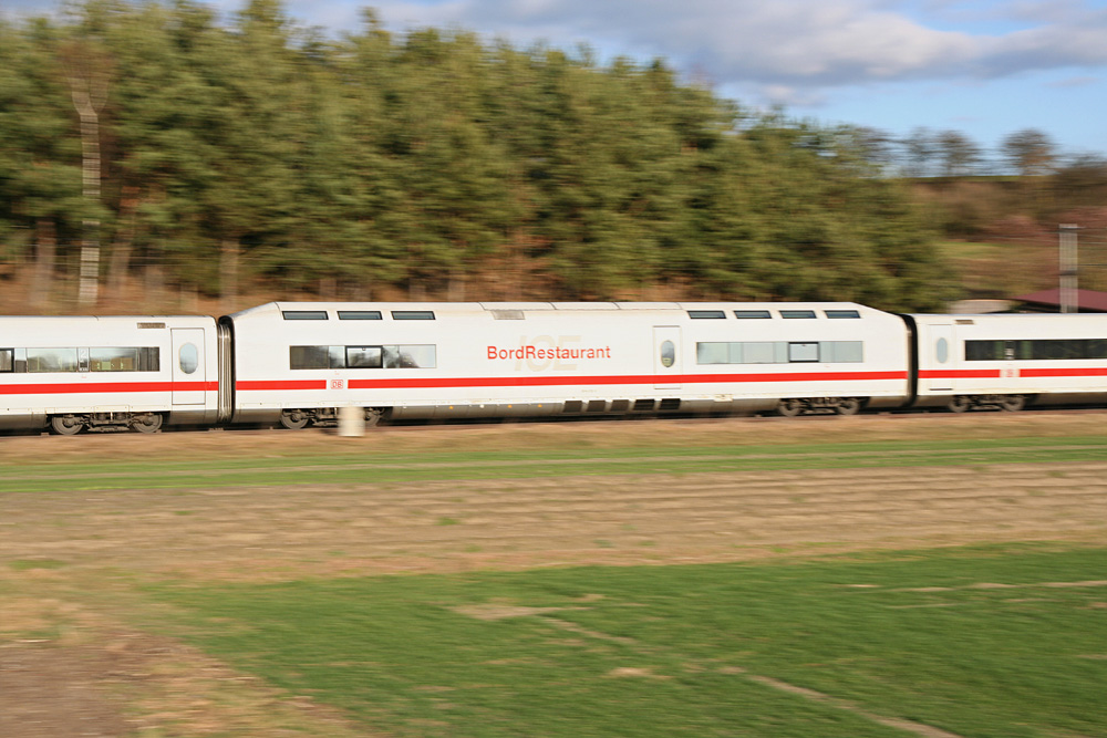 The BordRestaurant of an ICE 1 high-speed train.